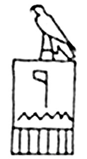 This picture depict a hieroglyphic name of Ni-netjer or Nnetjer. The picture was made through a photocopy of own work witch I painted.